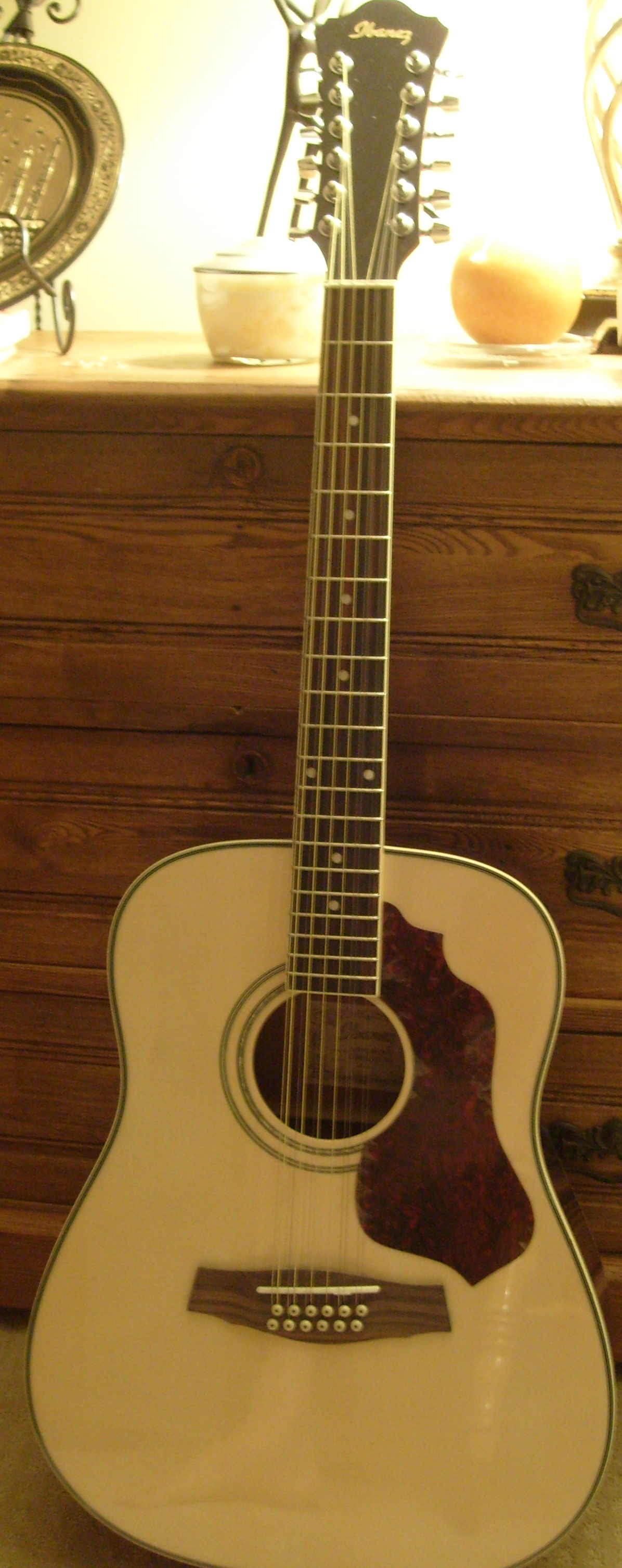 A photo of an Ibanez SGT 122 12 string acoustic guitar